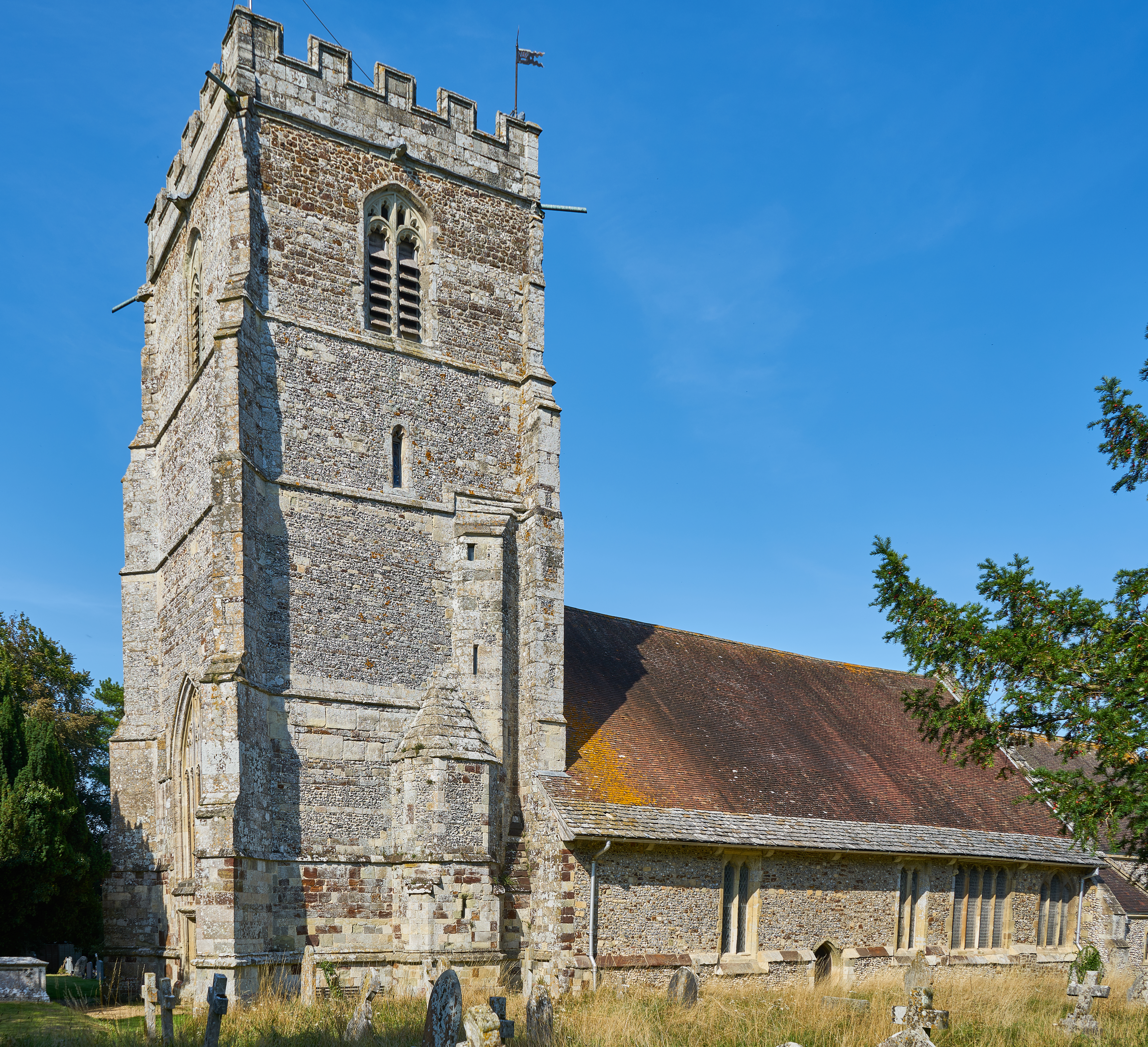 The massive 15th century tower of Cranborne's parish church dominates the village.